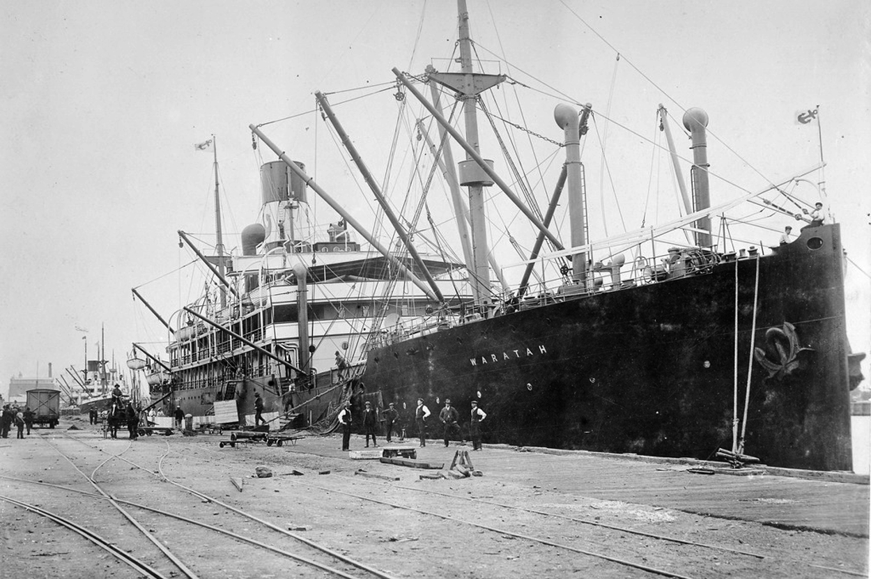 The SS 'Waratah', a large cargo ship anchored at ocean steamers wharf, Port Adelaide, possibly in early July 1909, just before her last voyage when the vessel disappeared off the coast of South Africa on 27 July 1909.